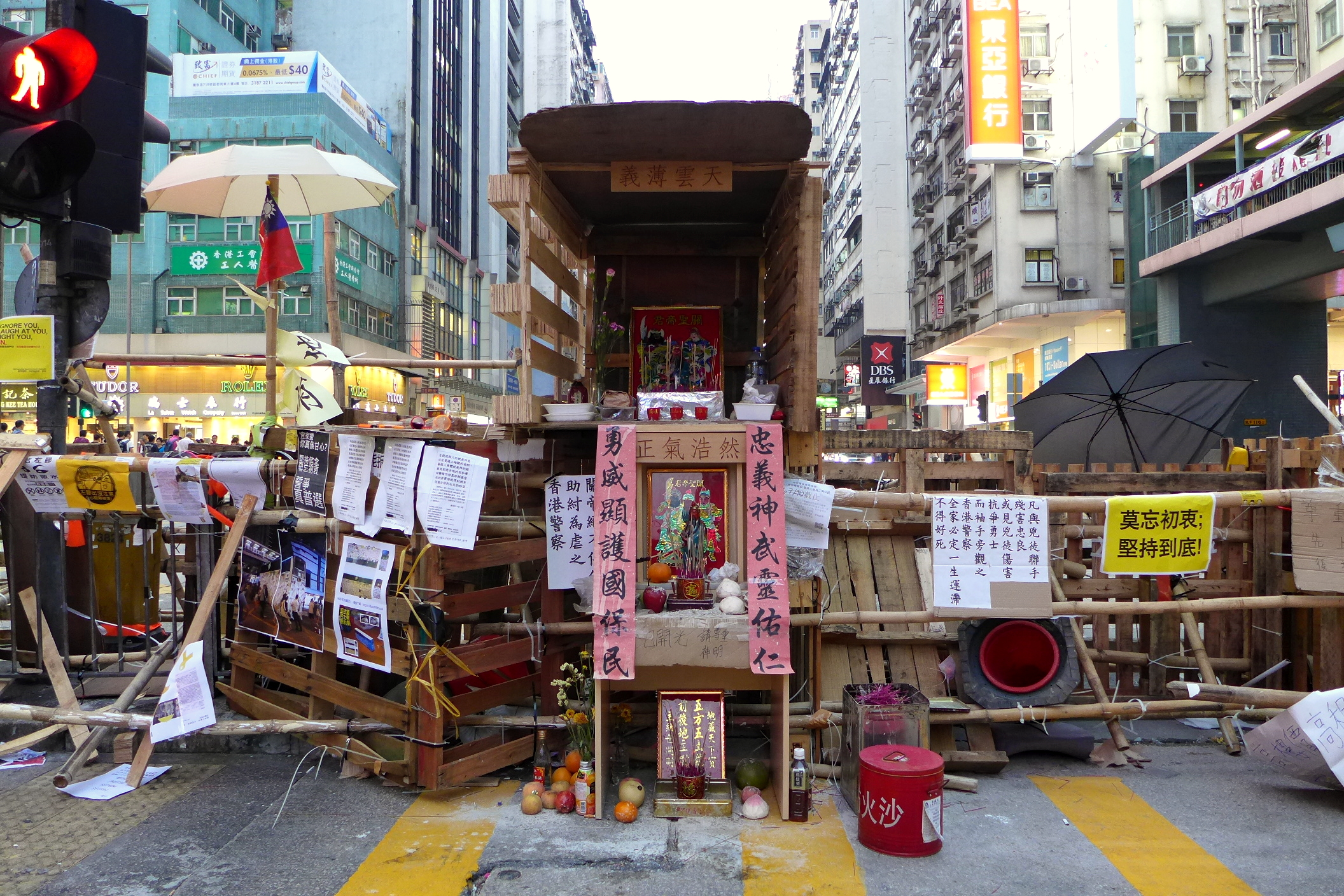 Mong Kok 1st Generation Temple in Nathan Road